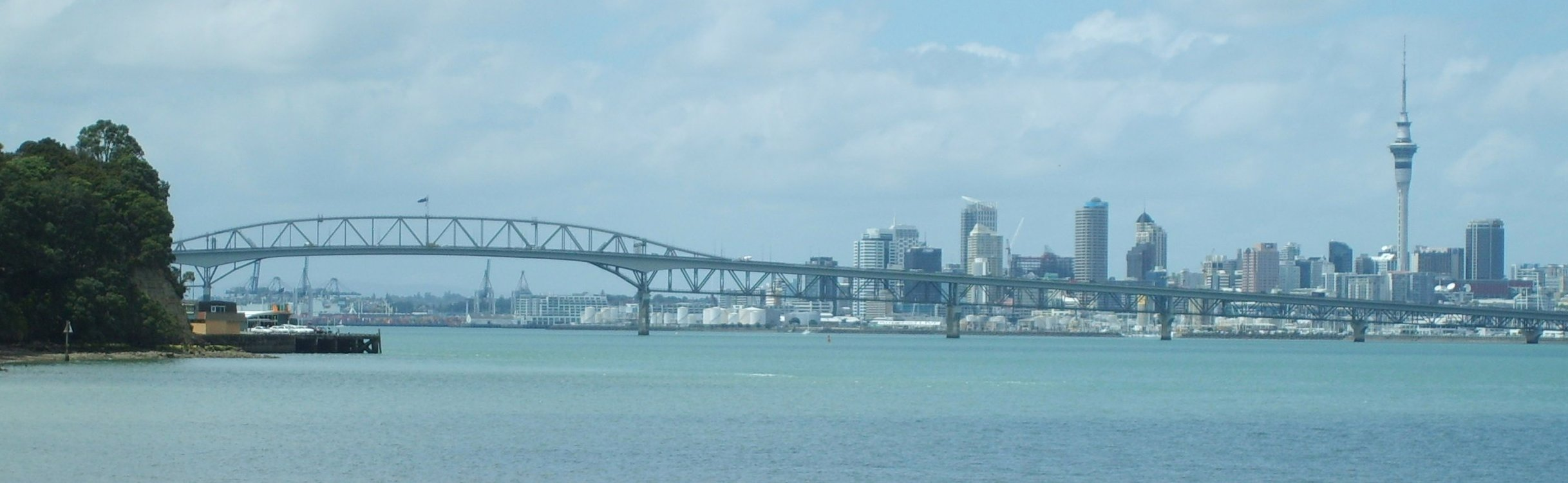 Auckland Harbour Bridge from Chelsea Sugar Refinery, showing Birkenhead Wharf in the foreground and the CBD in the background. Auckland, New Zealand.